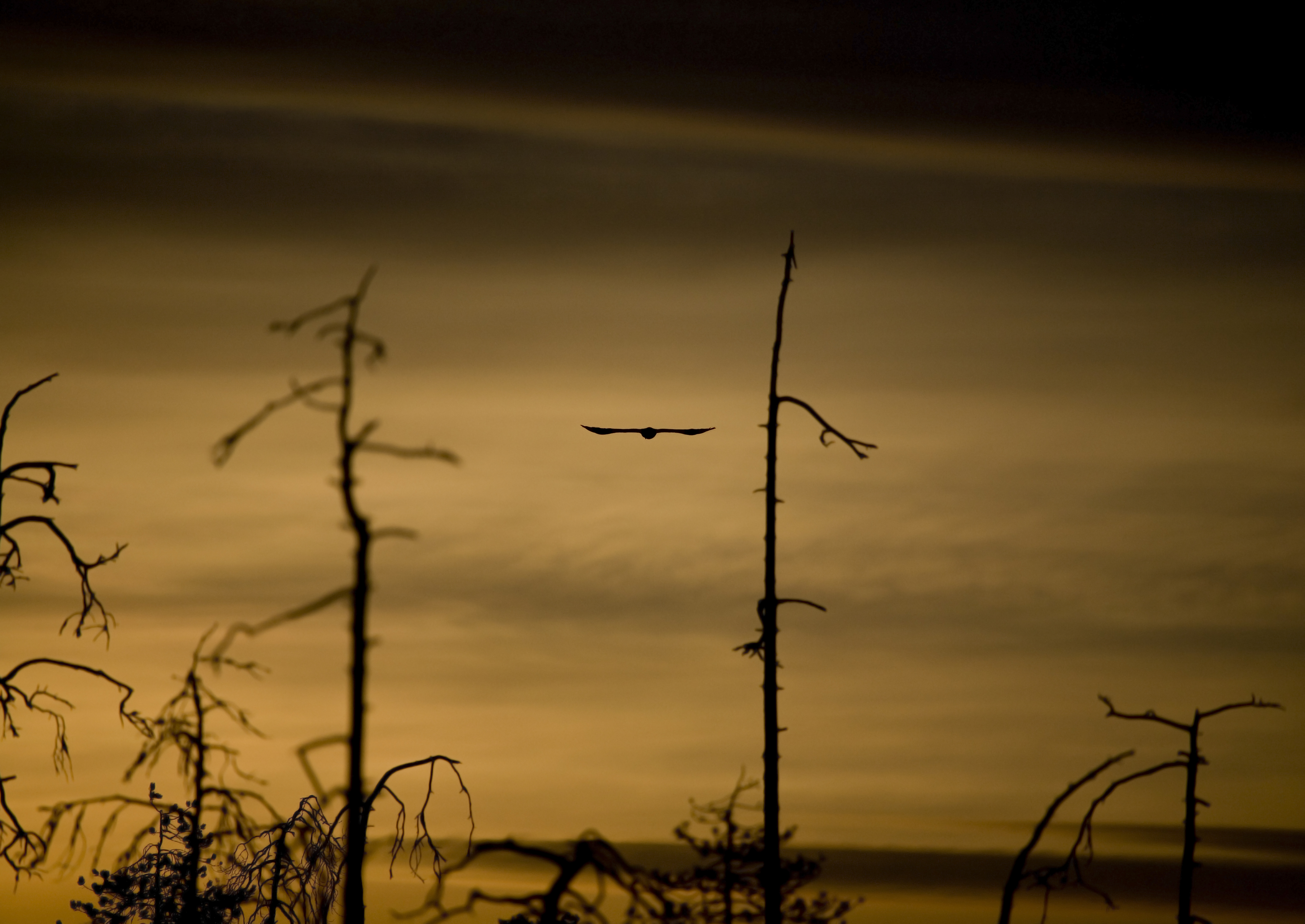 Flying bird at sunrise in Kuhmo, Finland.